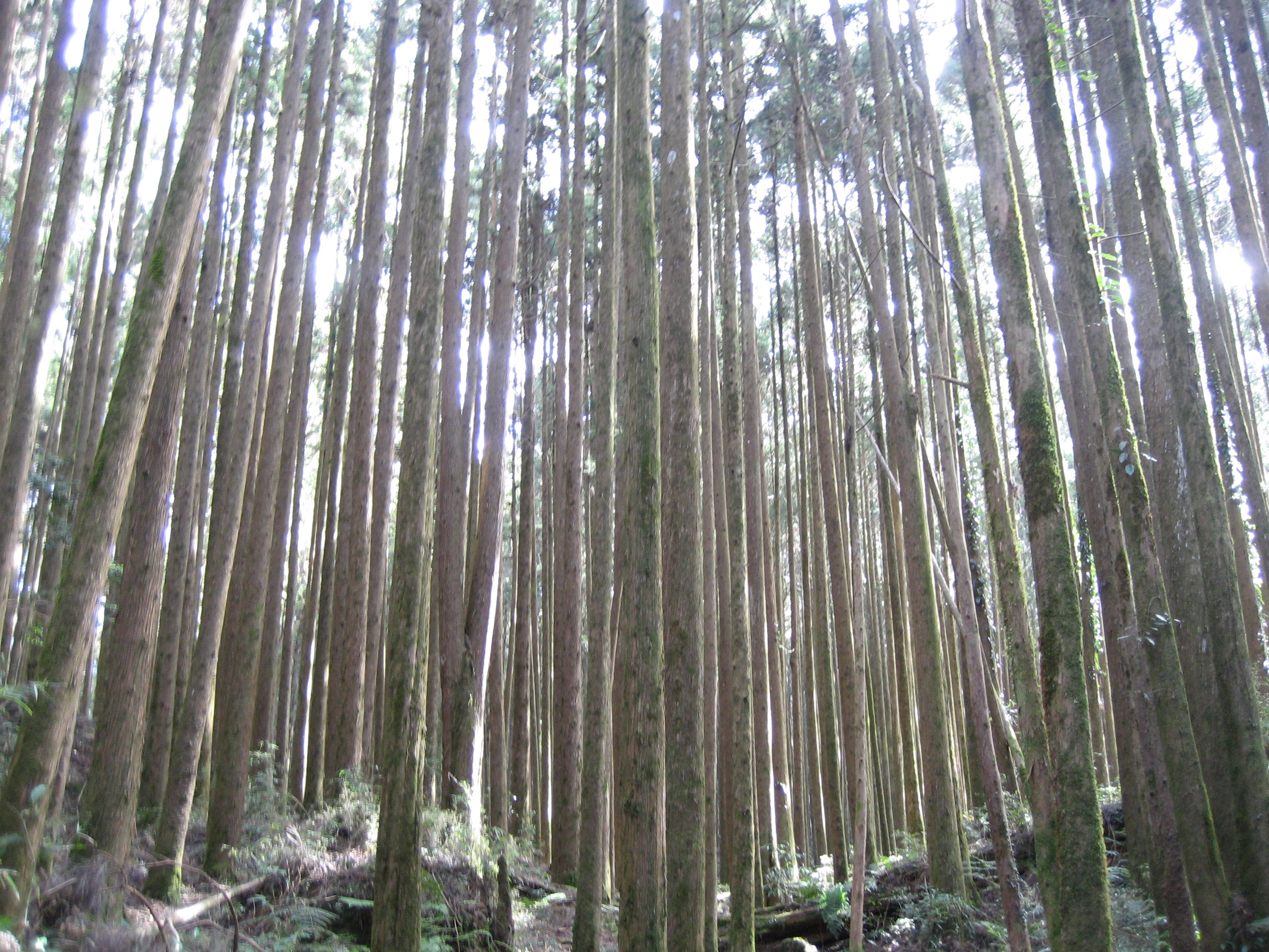 Cultivation forest in Taiwan